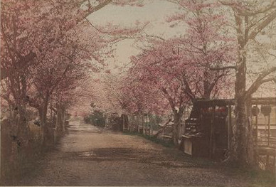 MUKOJIMA IN TOKYO – Cerebrated for its avenues of cherry trees, a mile in length, 1897